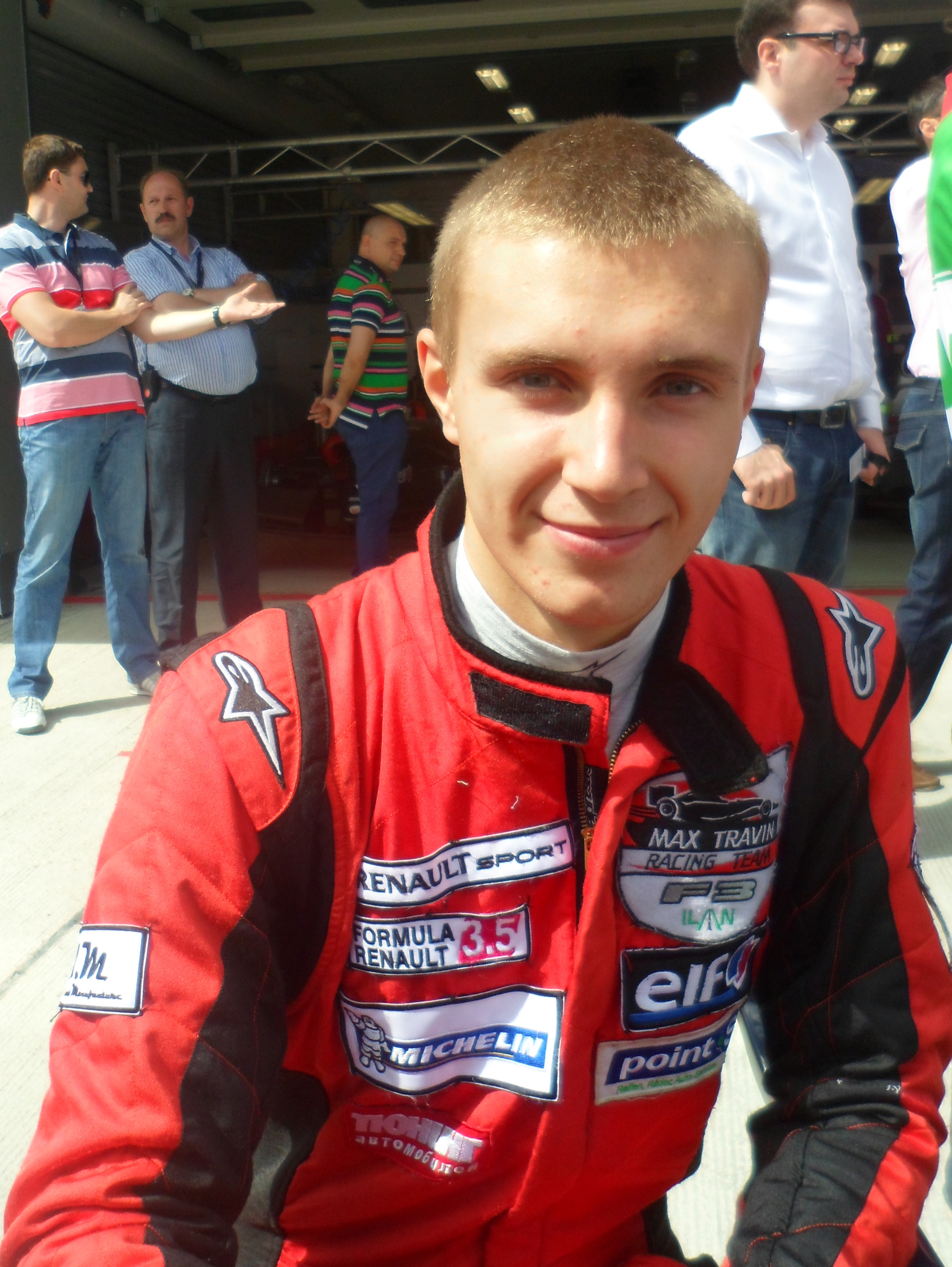 Sergey Sirotkin on autograph session at Moscow Raceway, 14 July 2012